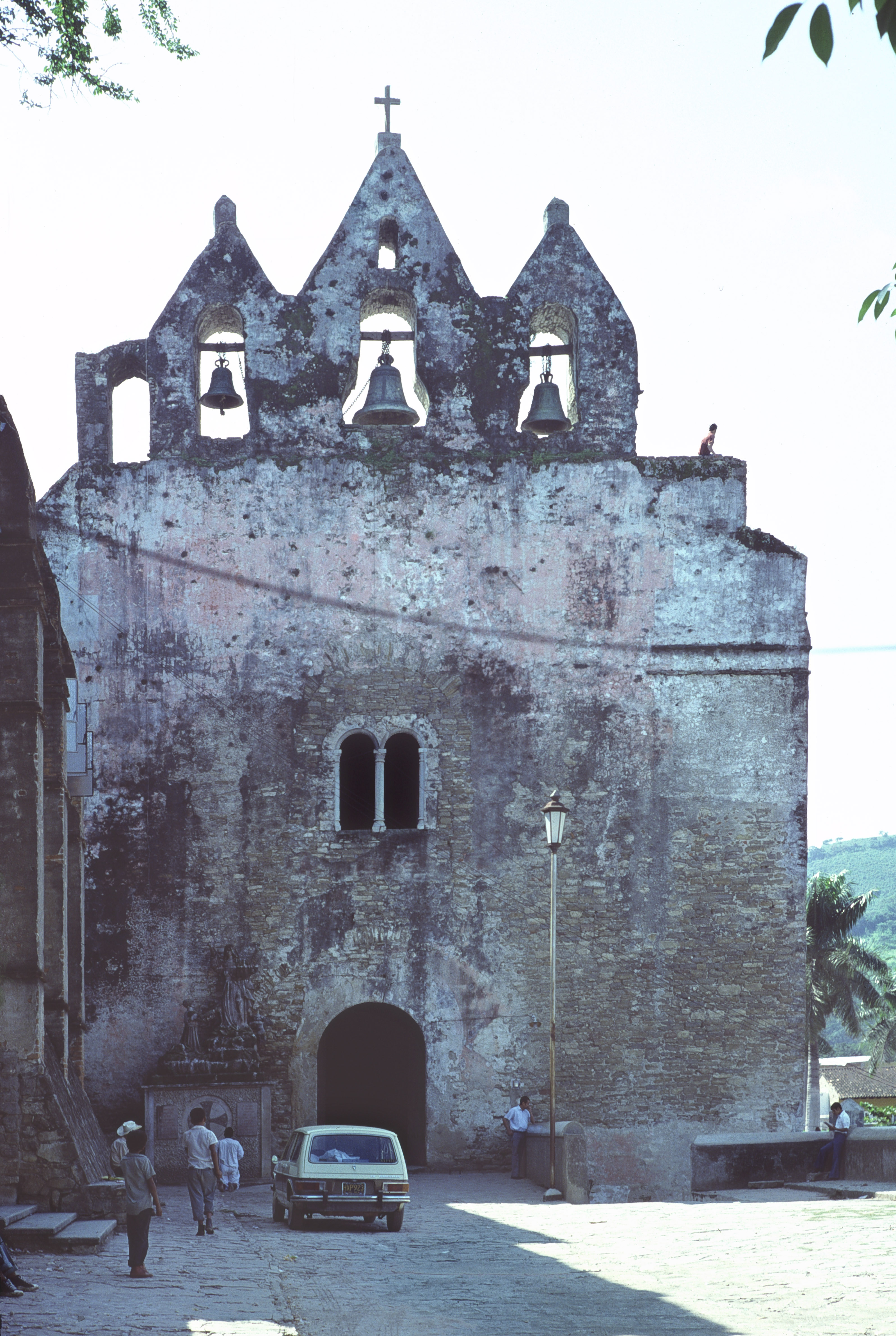 Huejutla, Hidalgo, Mexico; main church